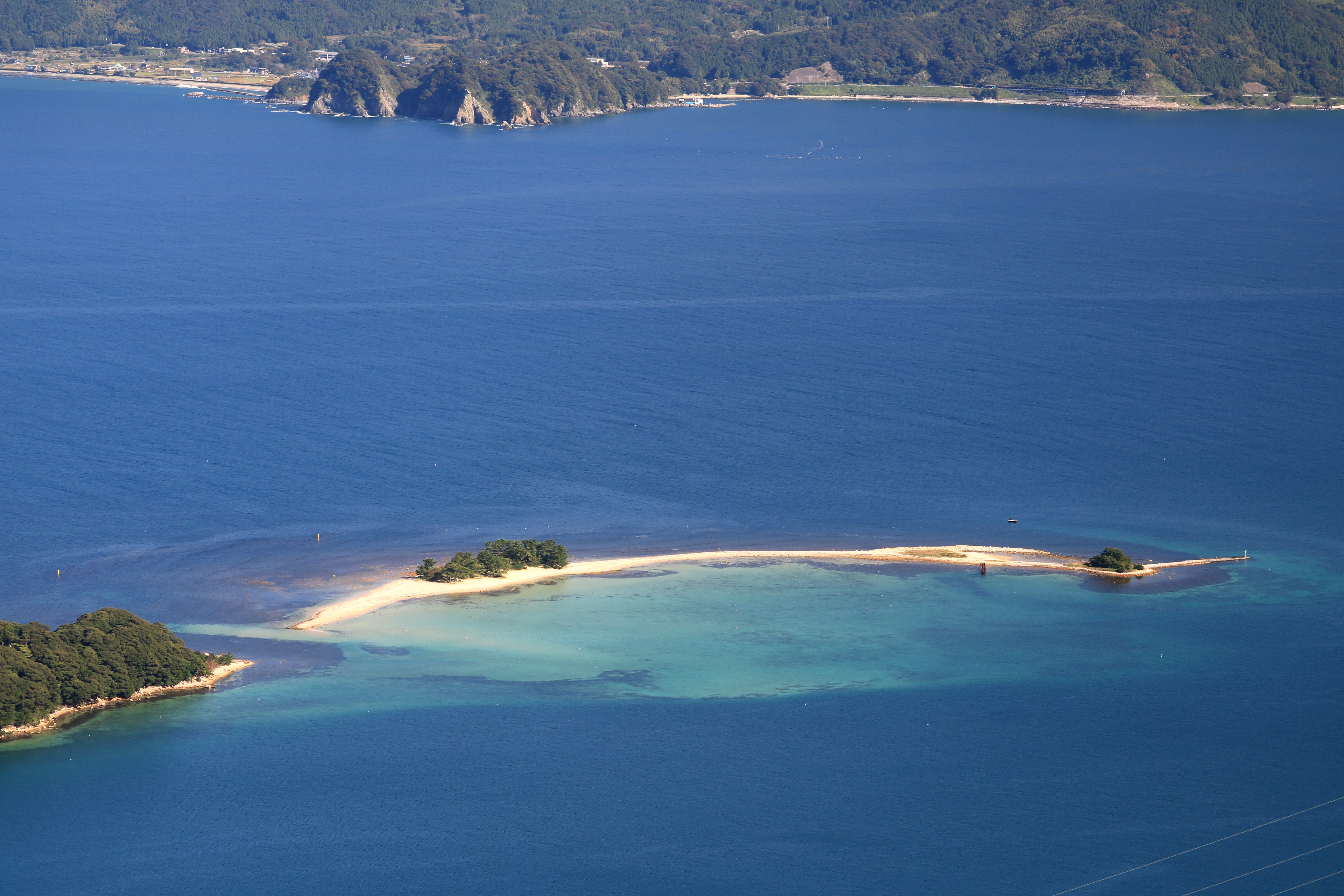 Mizu Island seen from Mount Sazae in Tsuruga, Fukui prefecture, Japan.